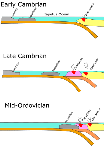 Evolutionary diagram of Precordillera from Early Cambrian to Mid-Ordovician showing A) Separation of Precordillera from Laurentia. B) Passive margin at the same time Famatina formation from volcanicity. C) Collision of Precordillera towards Gondwana-Famatina mass